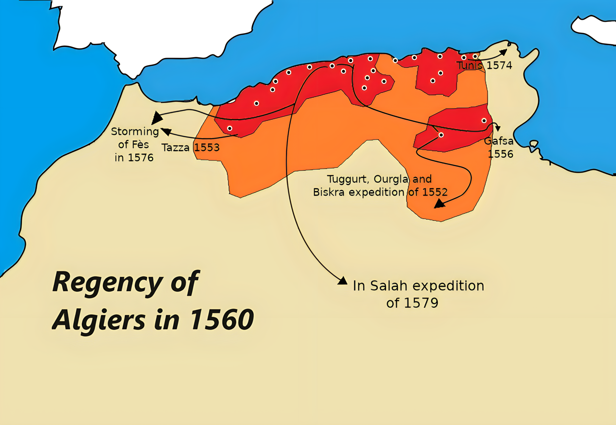 Legends: • In Dark Orange: Elayet of Algeria • In Orange: Vassal region or under the influence of Elayet of Algeria • Black circle: Permanent Algerian Forts and Garnisons •